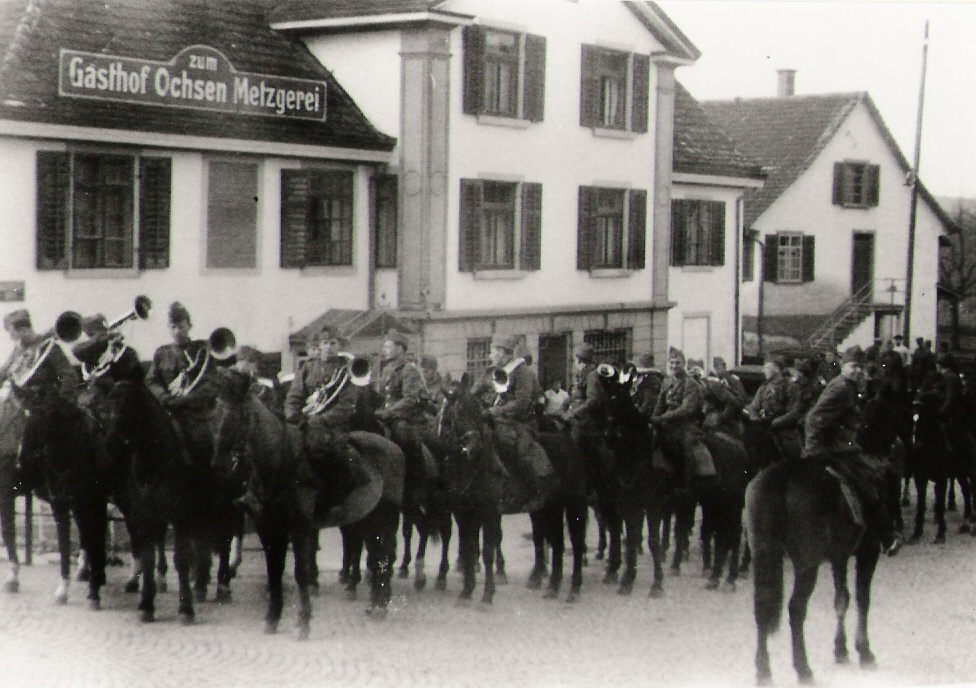 Cavalry music of the Swiss Army in Islikon TG Switzerland, 1937